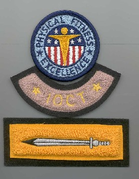 Three Badges that can be awarded to USMA Cadets for Physical Performance Excellence